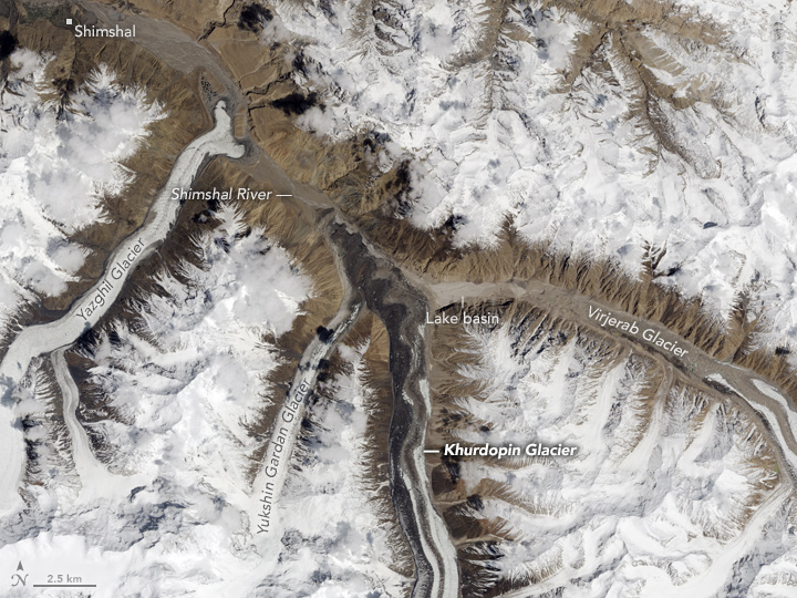 Several of the glaciers that flow into this valley surge, meaning they cycle through periods when they flow forward several times faster than usual. Since the valley is narrow and has a river running through it, surging glaciers regularly dam the river and create flood hazards. The floods occur when water pooling up behind the tongue of the advancing glacier suddenly breaks through the natural ice dam and cascades down the gorge. As seen in this Landsat 8 image, several glaciers flow into the Shimshal Valley perpendicular to the flow of the river, and they have little room to move before they intersect with the water. In recent decades, the four glaciers most prone to blocking the river have been the Khurdopin, Yukshin Gardan, Yazghil, and Malungutti. The Operational Land Imager (OLI) on Landsat 8 captured this image on May 13, 2017.